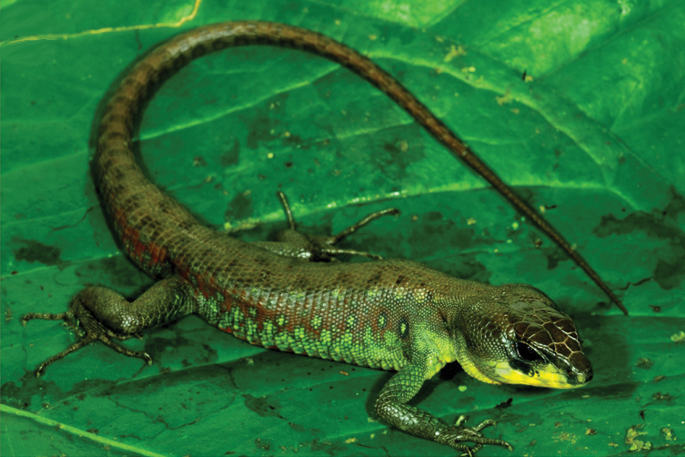 Potamites strangulatus strangulatus from Cordillera de Kampankis, Amazonas, northern Peru (not collected individual). Photo by Alessandro Catenazzi.